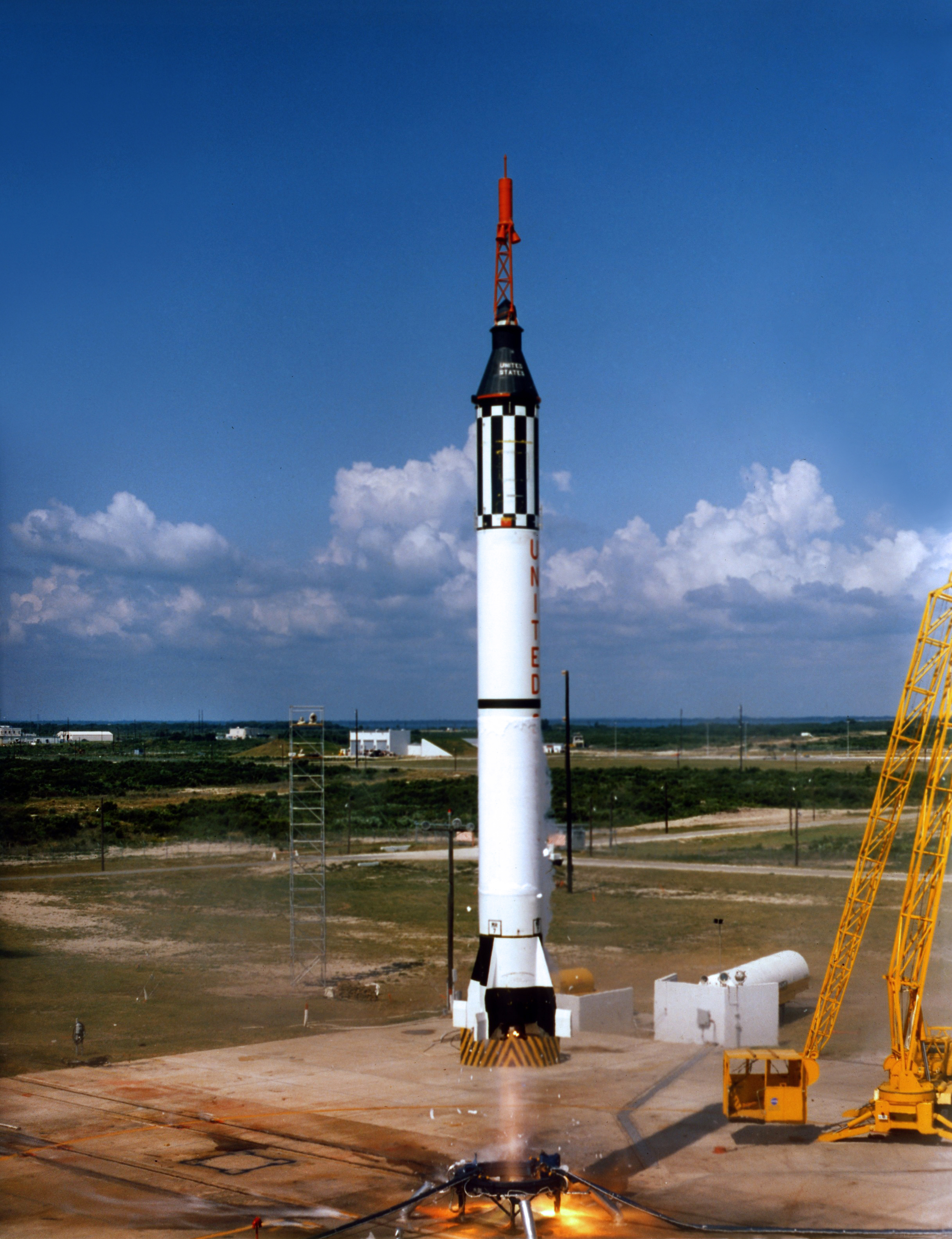 Launching of flight Mercury-Redstone 3 (MR-3), the first U.S. manned space flight, from Cape Canaveral on May 5, 1961, on a sub-orbital mission.